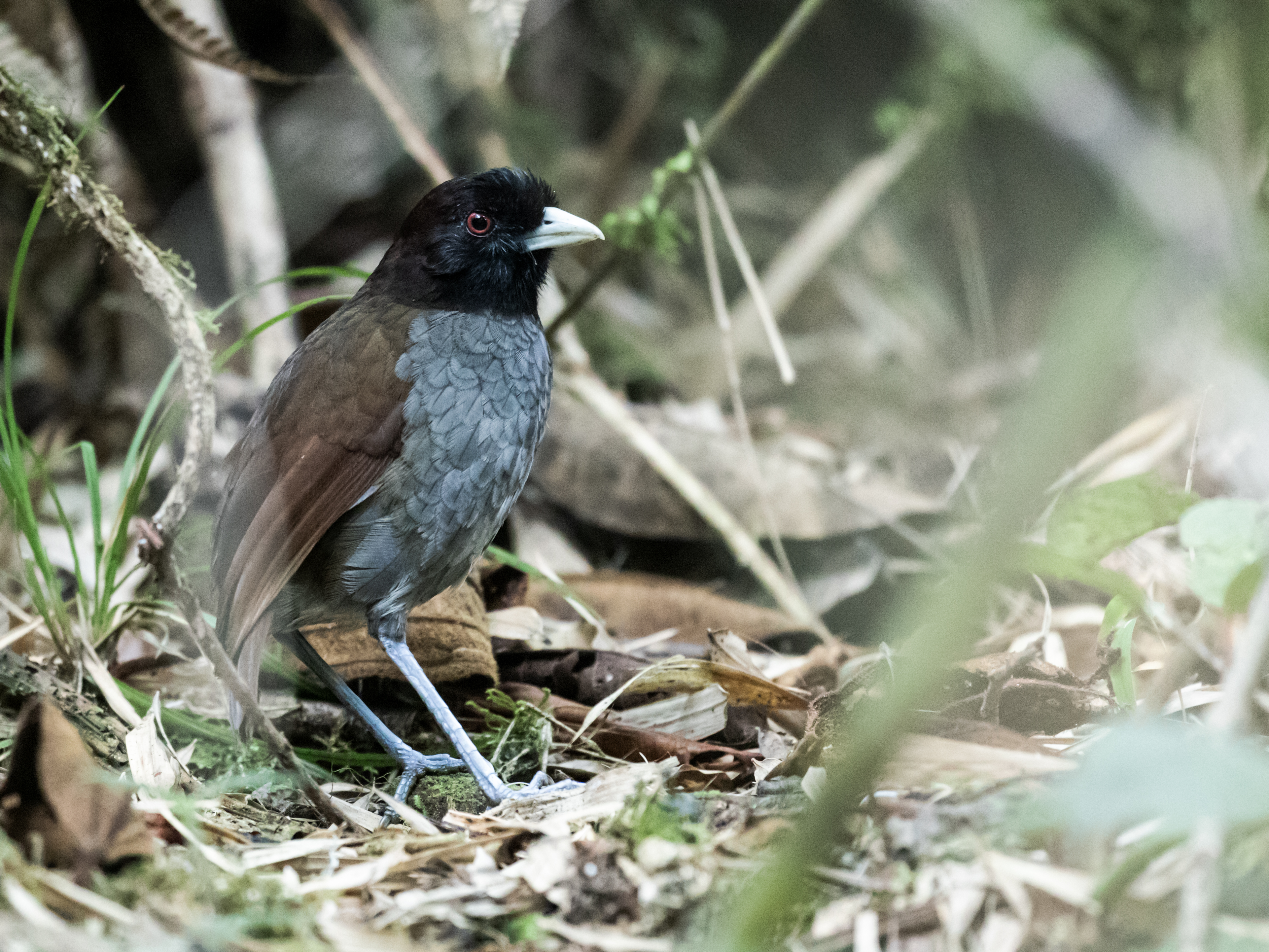 Pale-billed Antpitta from San Lorenzo, Amazonas, Peru.